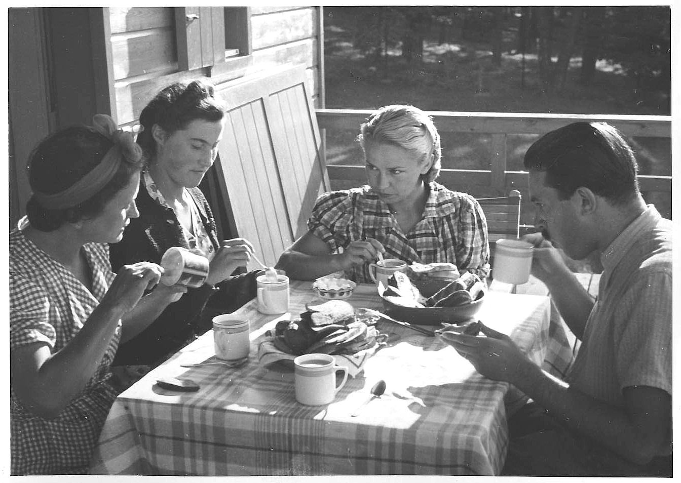 Jarmila Jeřábková at the weekend house of friends in Ledce near Nespeky. Jarmila Jeřábková, third from left, with two fellow dancers and her husband Ing. Ladislav Mikulík.